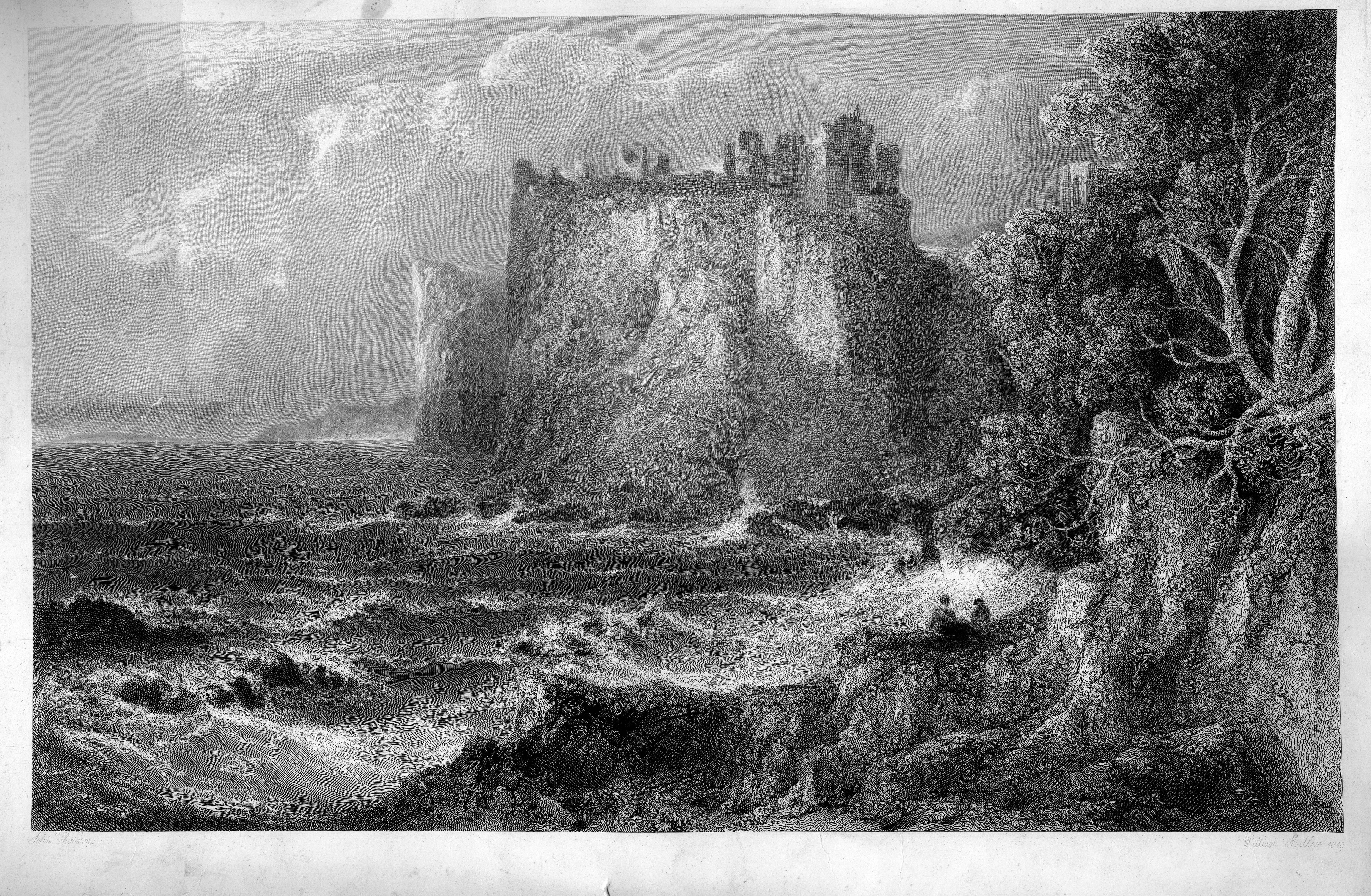 Engraving of Dunluce Castle, County of Antrim, by William Miller after John Thomson of Duddingstone For the Members of the Royal Association for the Promotion of Fine Arts in Scotland